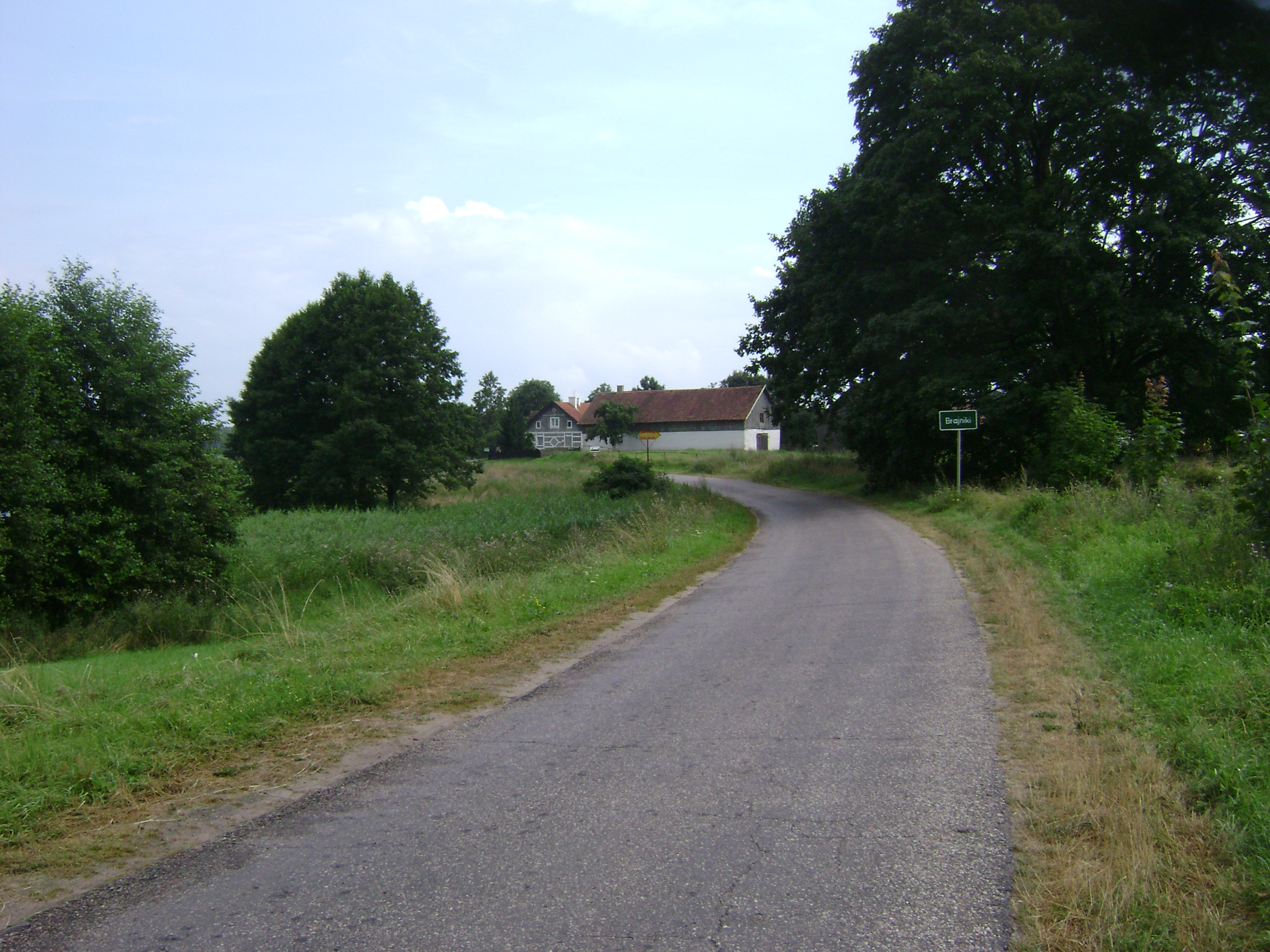 Poland. Gmina Jedwabno. Brajniki Village